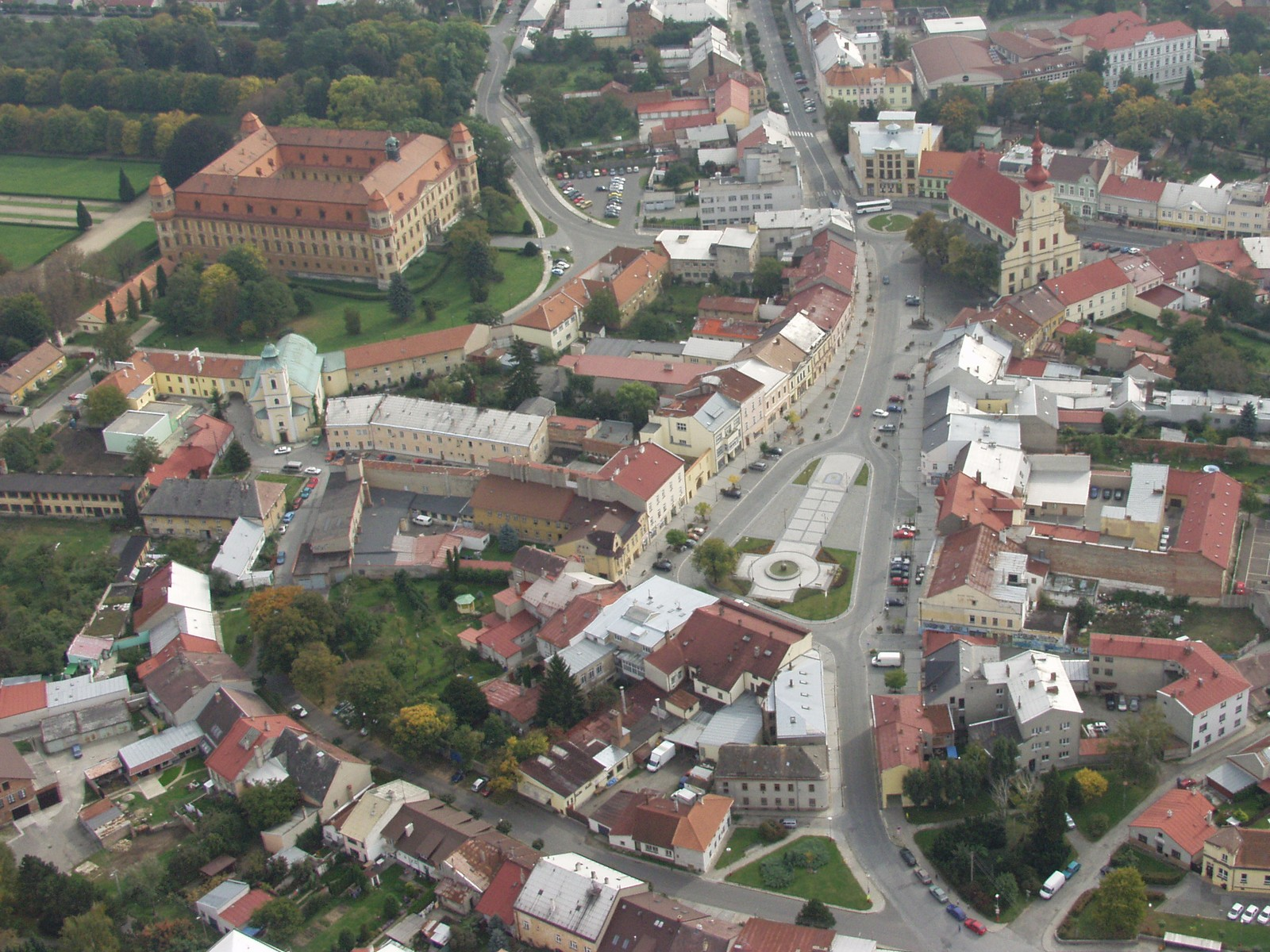 An aerial view on the centre of town Holesov (Czech Republic). Letecký pohled na centrum města Holešov.